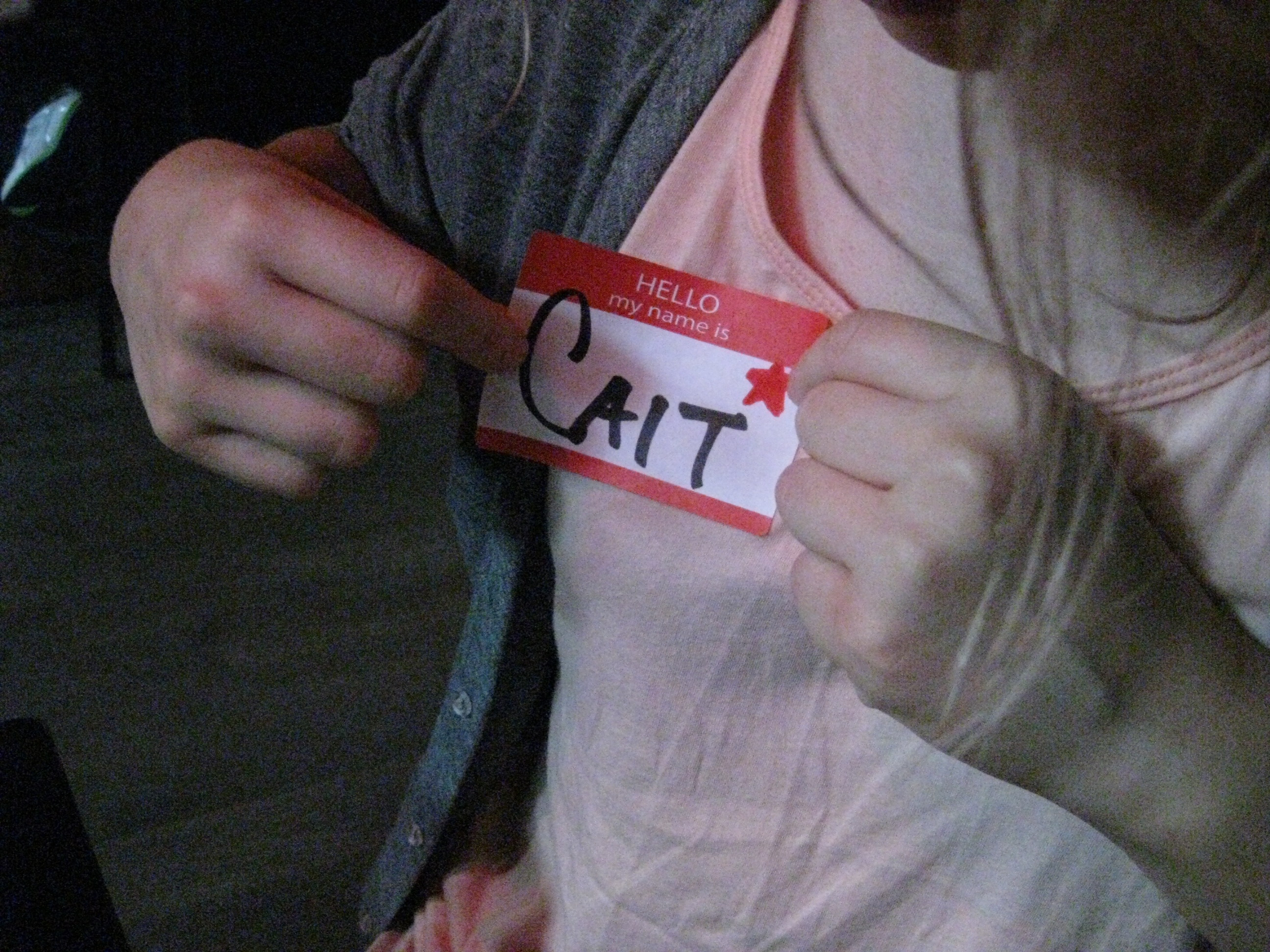 At Jen's art opening on Wednesday night.